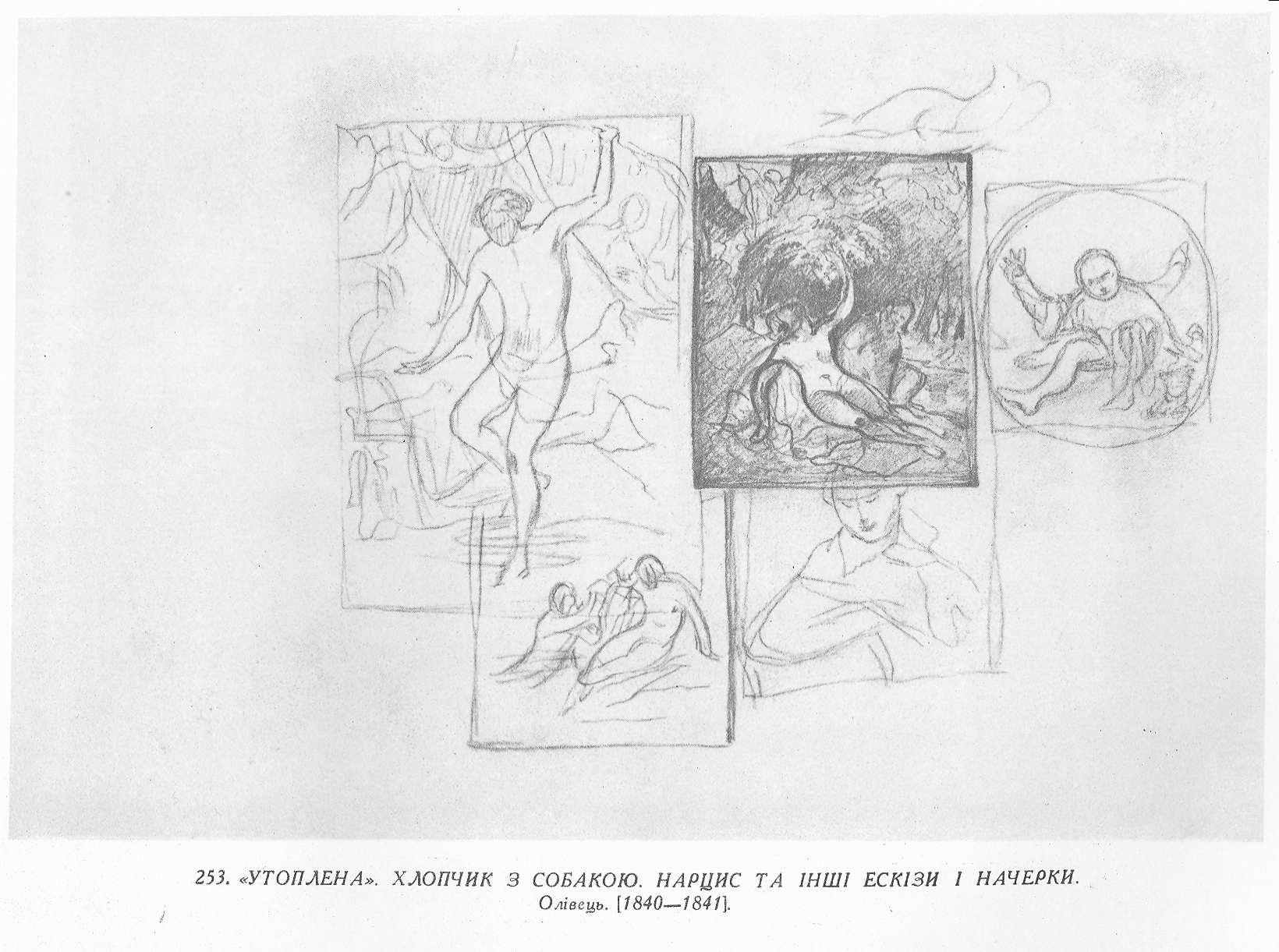 Painting of Taras Shevchenko